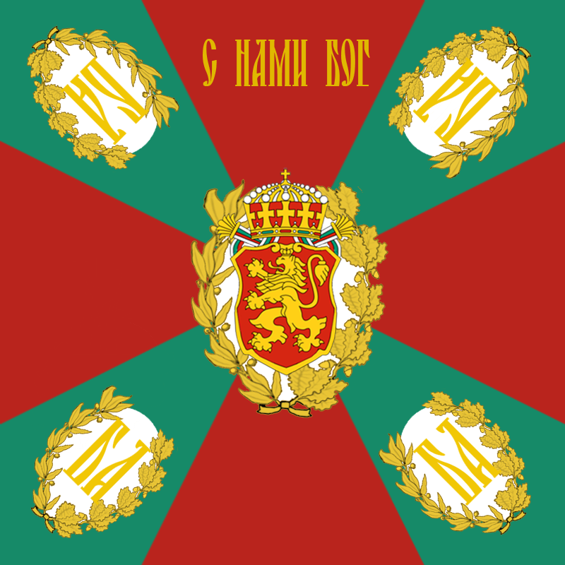 Current bulgarian war flag